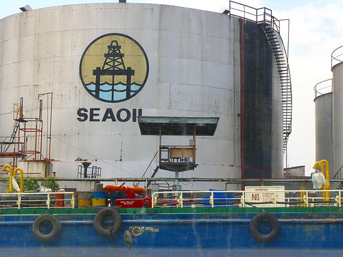 To depict the oil depot at the Pasig River